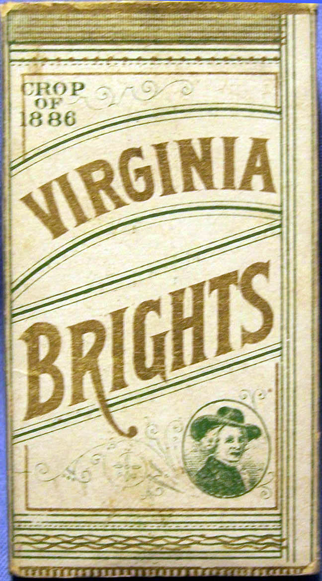 Cigarette box for the "Virginia Brights" brand, owned by Allen & Ginter Co.